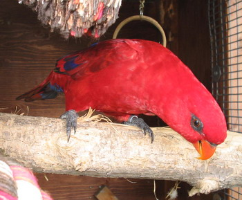 Red Lory.